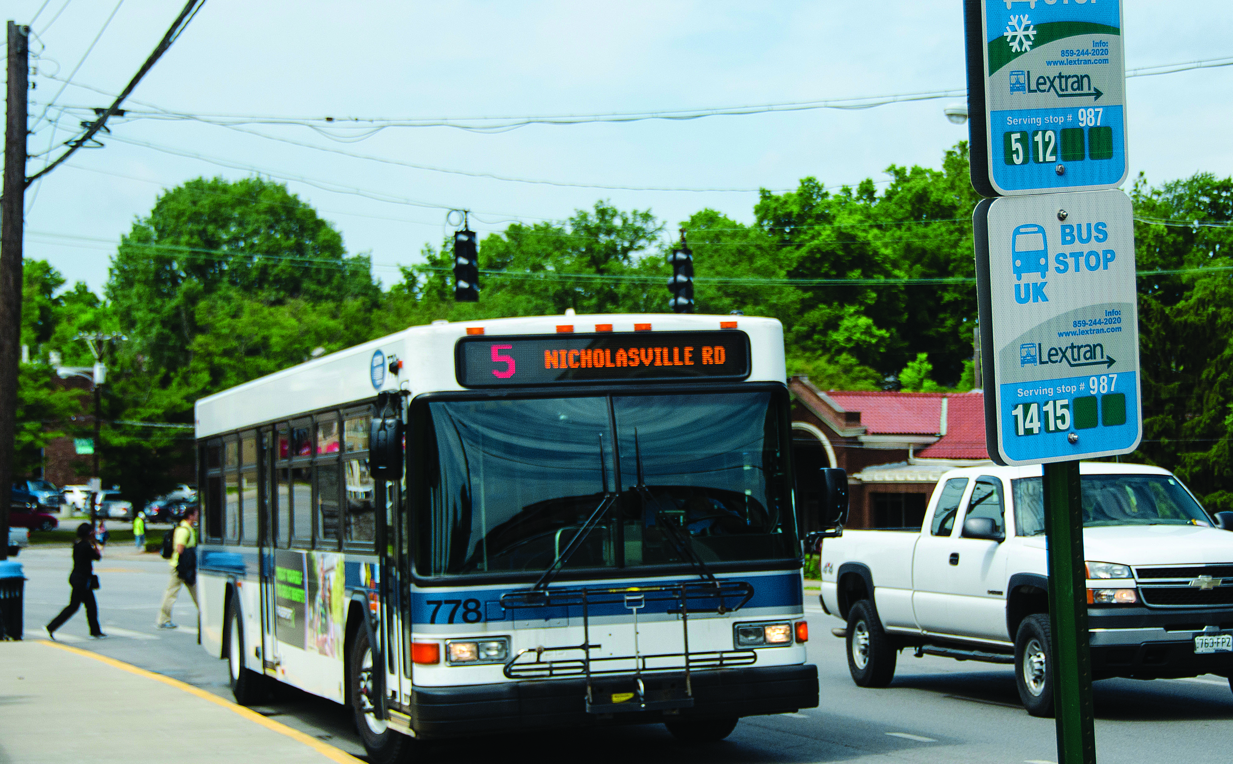 A Lextran bus picks up students in front of the Main Building on South Limestone on Wednesday, June 17, 2015 in Lexington, Kentucky. Photo by Taylor Pence